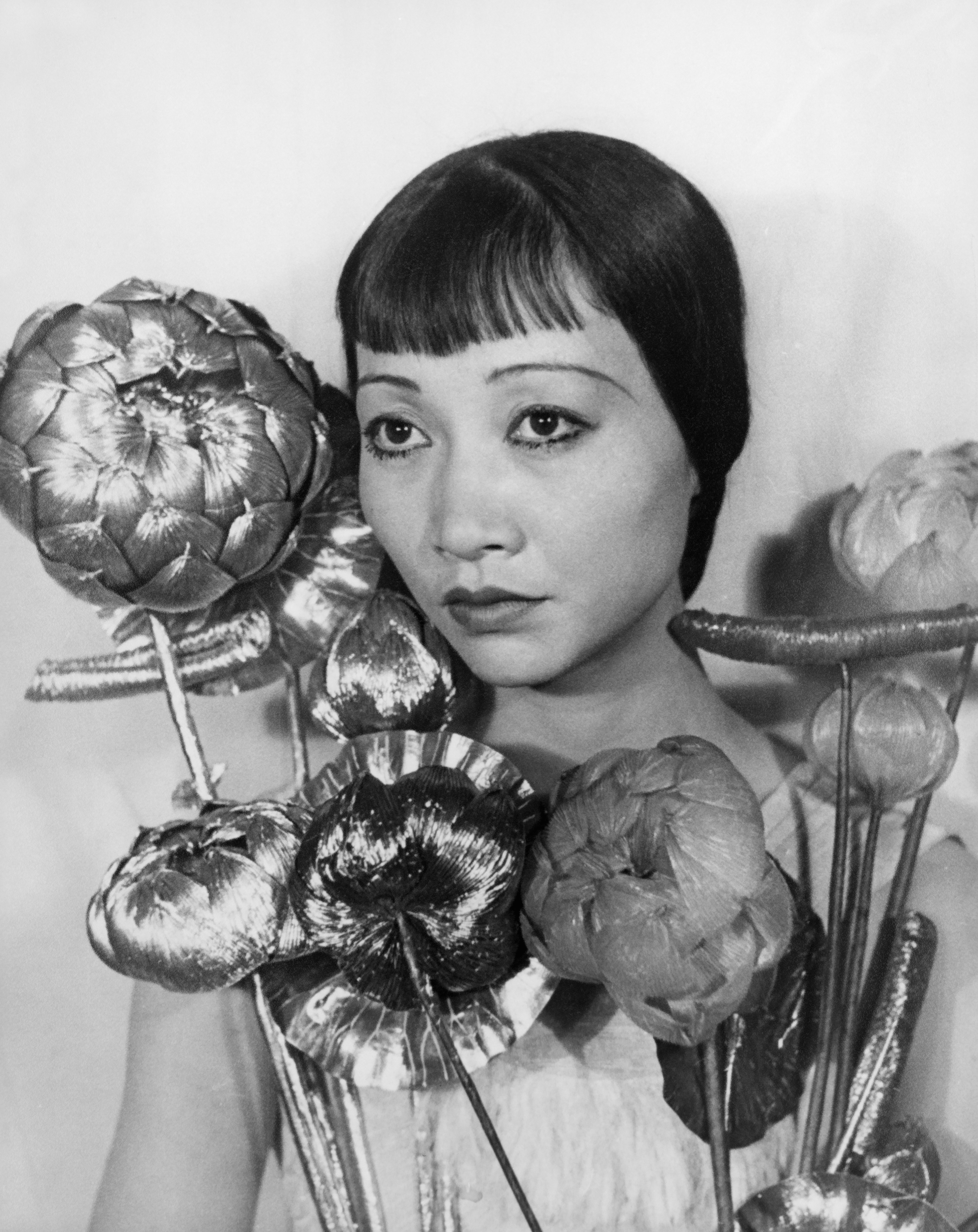 Portrait of Anna May Wong (1905–1961).